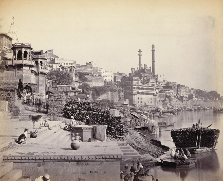 "Photograph of the great mosque of Aurungzebe and adjoining ghats at Varanasi in Uttar Pradesh," black and white photograph by Samuel Bourne. The miniarets seen in the distance were fully restored by the Anglo-Indian scholar James Prinsep, before later being shortened and then demolished due to their instability. Image courtesy of the British Library, London.